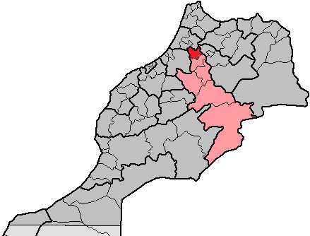 Location of the prefecture Meknès within the region Meknès-Tafilalet, Morocco. In total, Morocco has 16 regions, subdivided into 62 provinces and 13 prefectures.